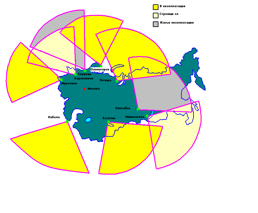 Estimated ranges of Daryal-type radars (bulgarian language)